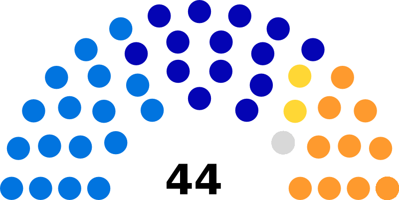 Seats diagramme of Swiss Council of States (1851)